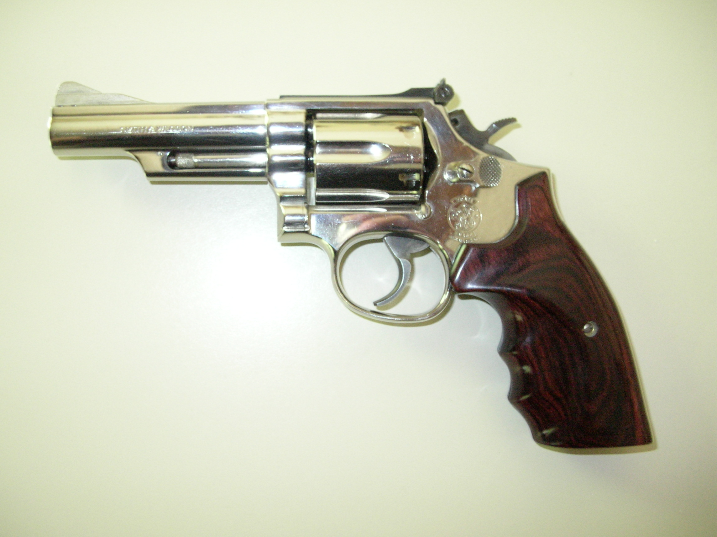 Smith & Wesson Model 19-5 .357 Magnum, 4" Barrel, Polished Nickle plated, Woodgrain square grips